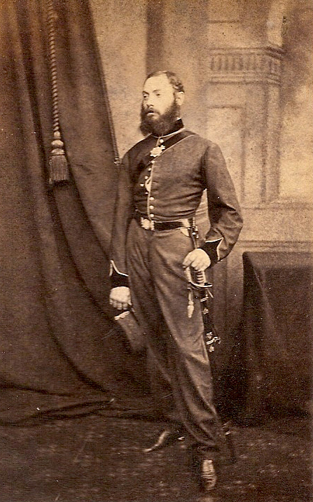 Samuel Rowe (23 March 1835 – 28 August 1888) was a British doctor and colonial administrator who was governor of Sierra Leone for several terms, and also served as administrator of the Gambia and governor of the the Gold Coast.